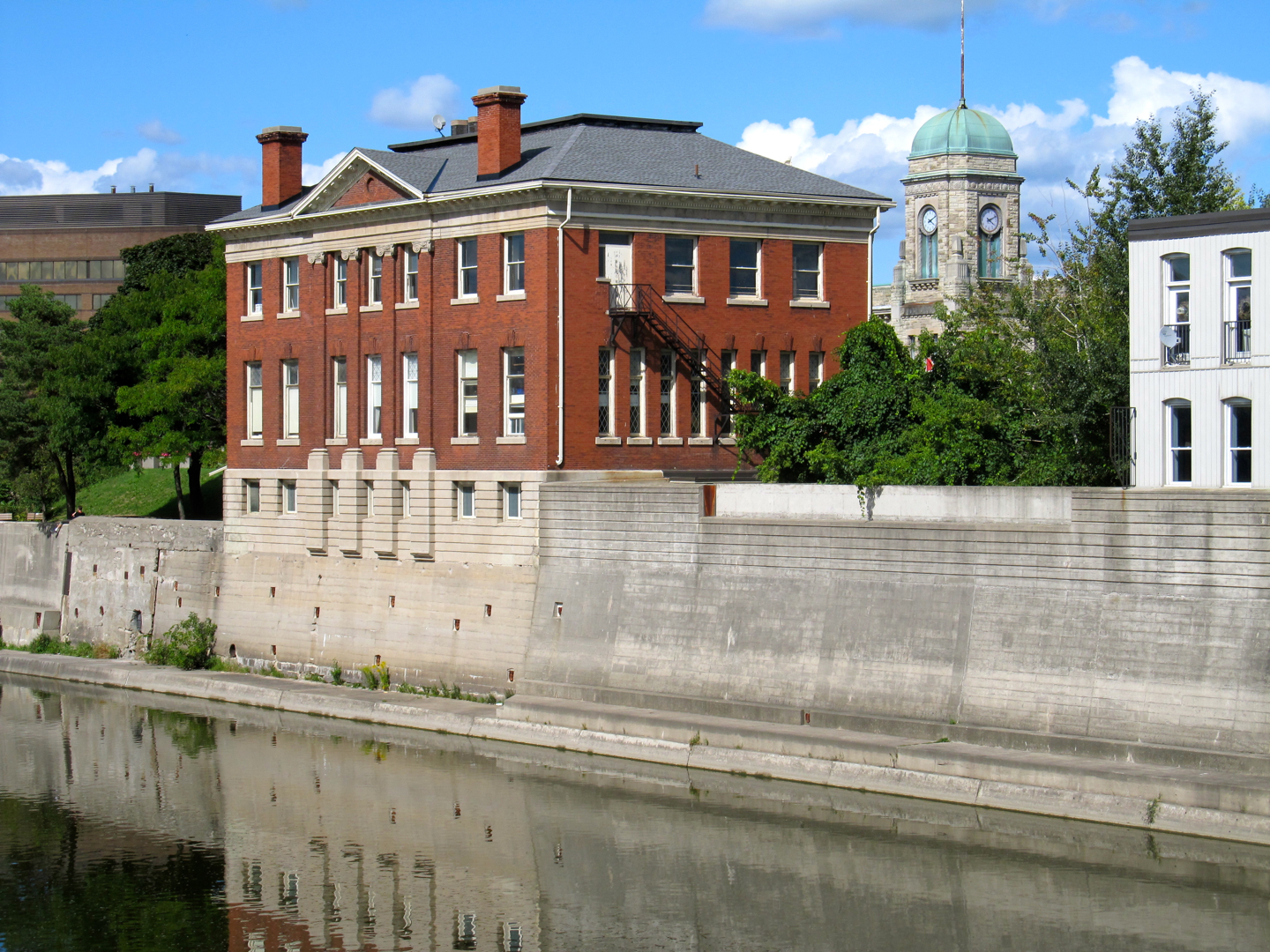 Galt Public Library on the Grand River in Cambridge, Ontario.